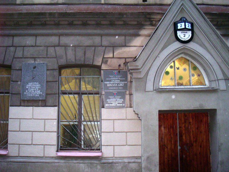 Plaque on birthplace of Dmitri Shostakovich. I took this photo. // 2, Podolskaya Street, Saint Petersburg - School 267. Other notable former residents: Dmitry Mendeleyev, Mikhail Shemyakin.